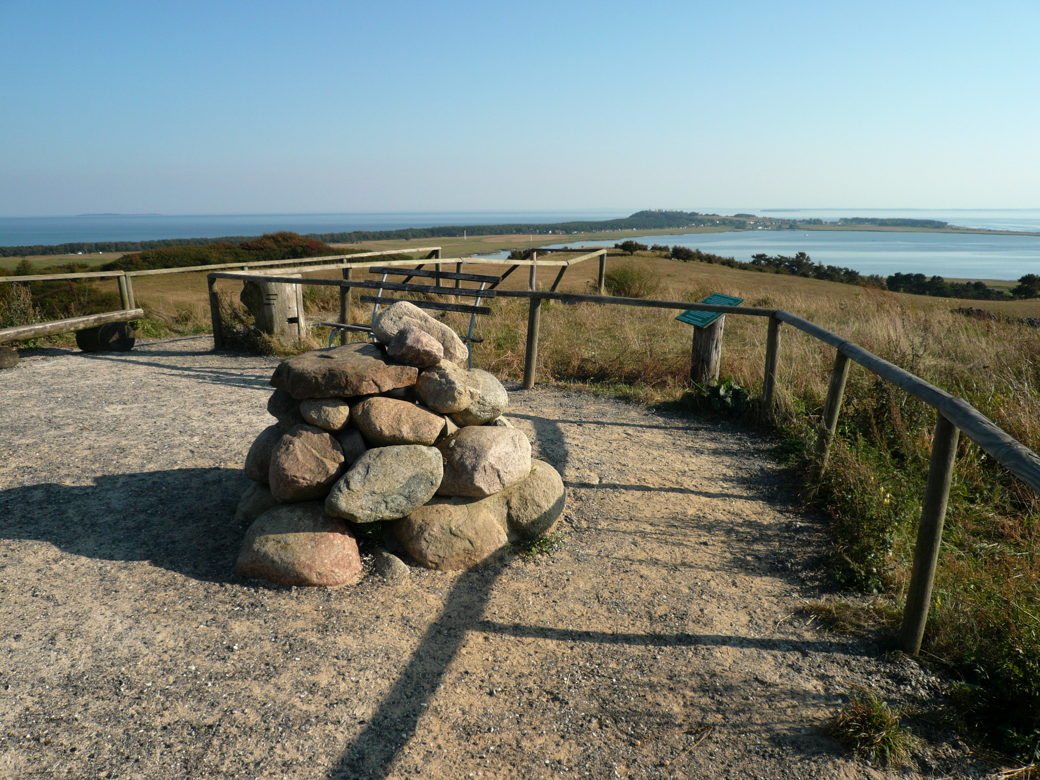 Bakenberg near Gross Zicker, Ruegen